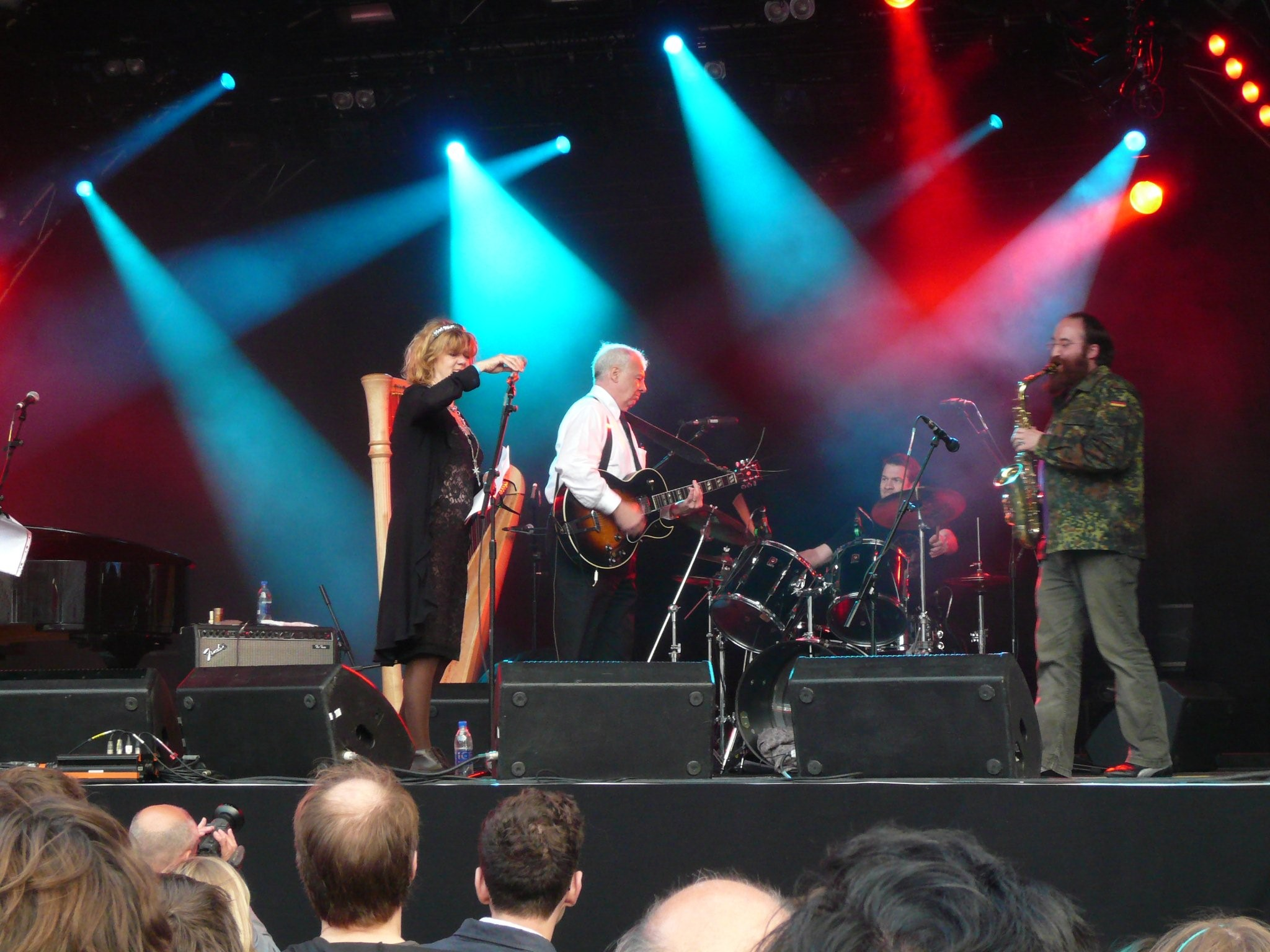 The Red Krayola, concert in July 2008, Somerset House, London.